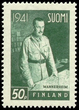 Postage stamp portraying the marshal and President of Finland C.G.E. Mannerheim